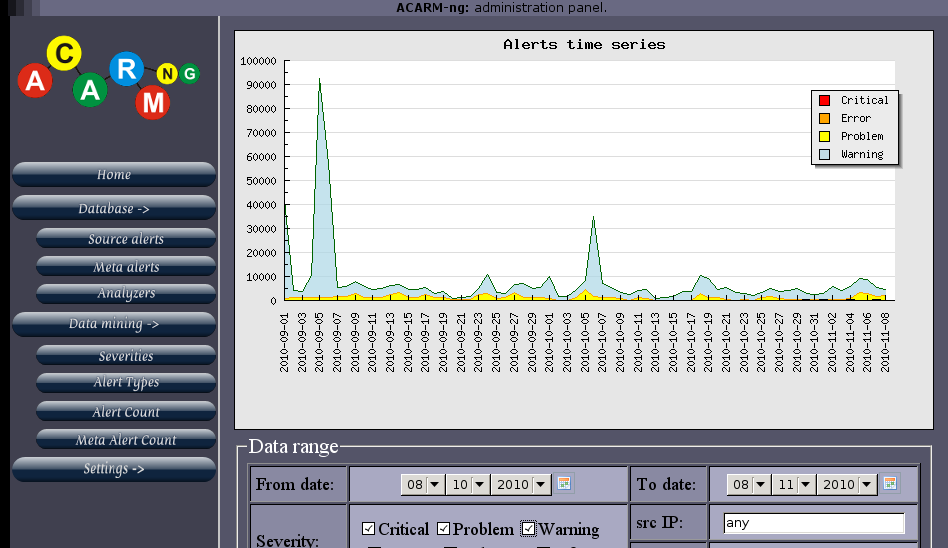 ACARM-ng's WUI image representing alerts count in a given time window.